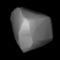 3D convex shape model of 1000 Piazzia, computed using light curve inversion techniques. J. Hanuš, J. Ďurech, M. Brož, B. D. Warner (June 2011). "A study of asteroid pole-latitude distribution based on an extended set of shape models derived by the lightcurve inversion method". Astronomy and Astrophysics 530: A134. ISSN 0004-6361. arXiv